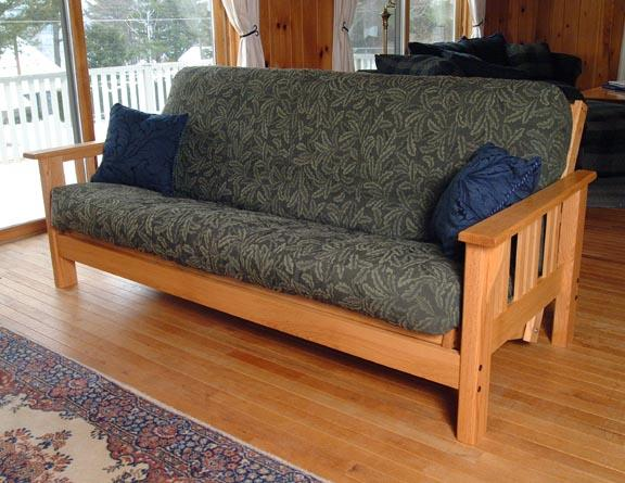 American futon